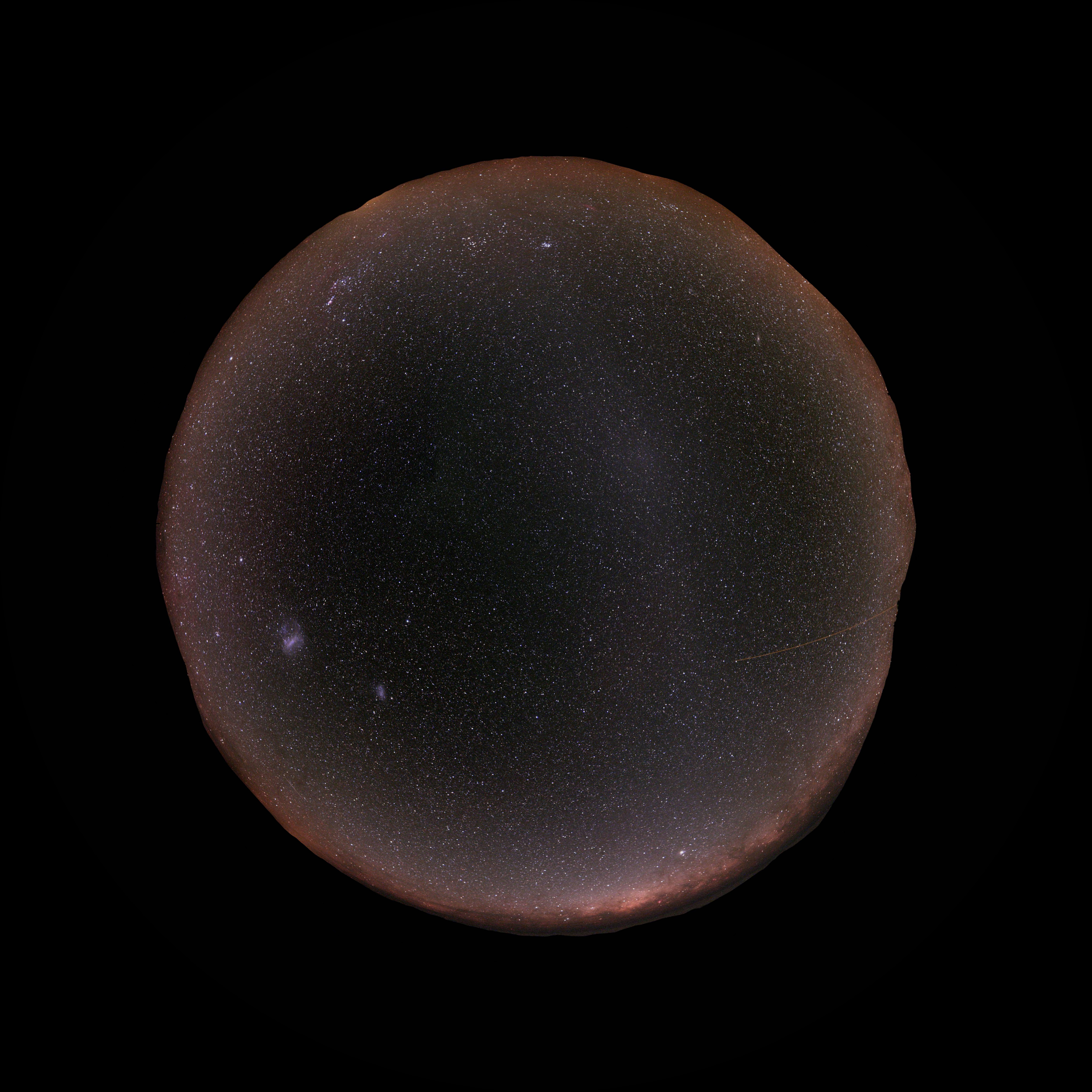 At Paranal, home of ESO's Very Large Telescope, the sky is so dark that the famous and extremely difficult to observe Gegenschein (or "counter shine") can be seen here . This is a faint brightening of the night sky in the region of the ecliptic directly opposite the Sun, caused by reflection of sunlight by interplanetary dust in the Solar system.